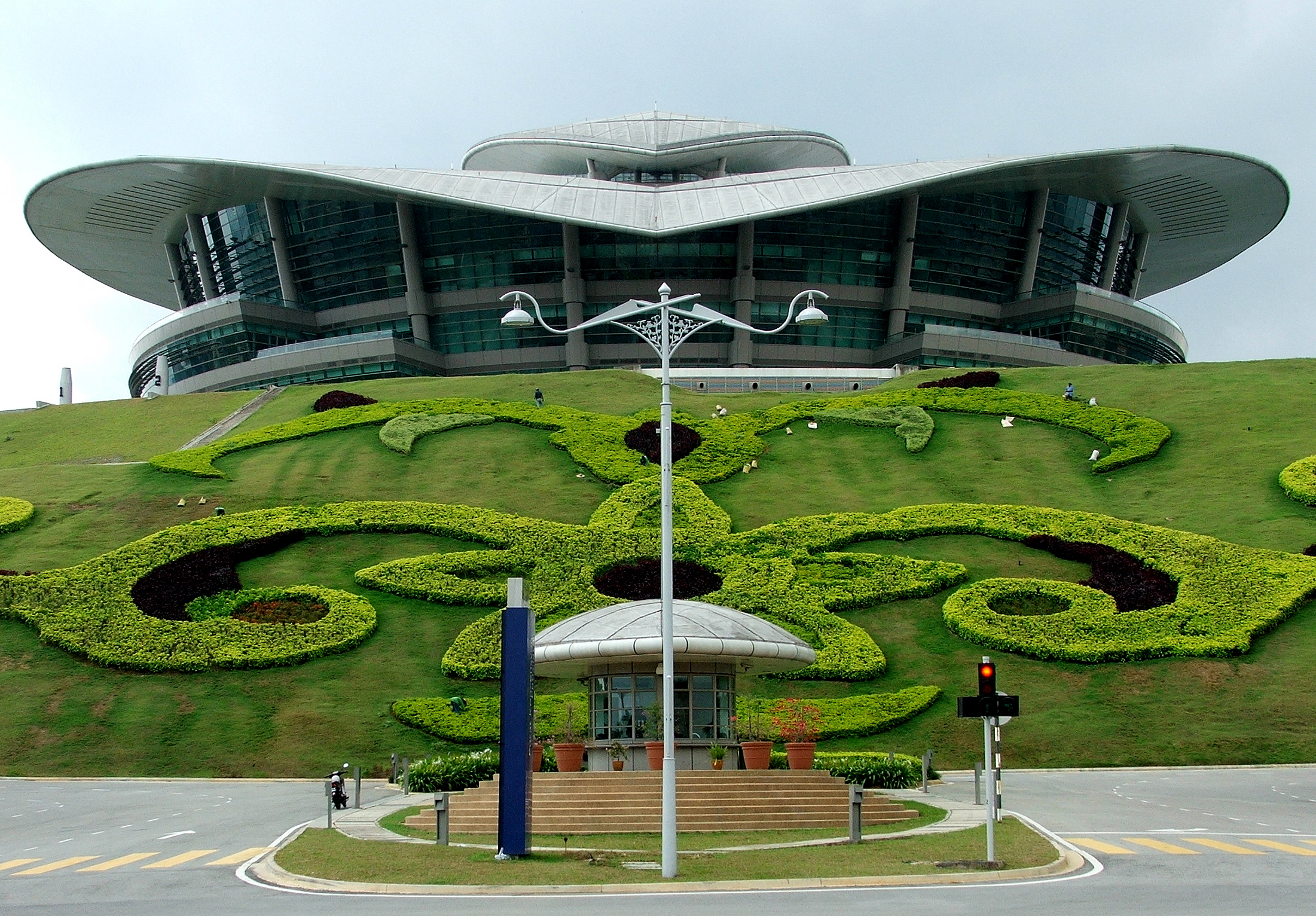 Close-up of the convention centre. Putrajaya International Convention Center